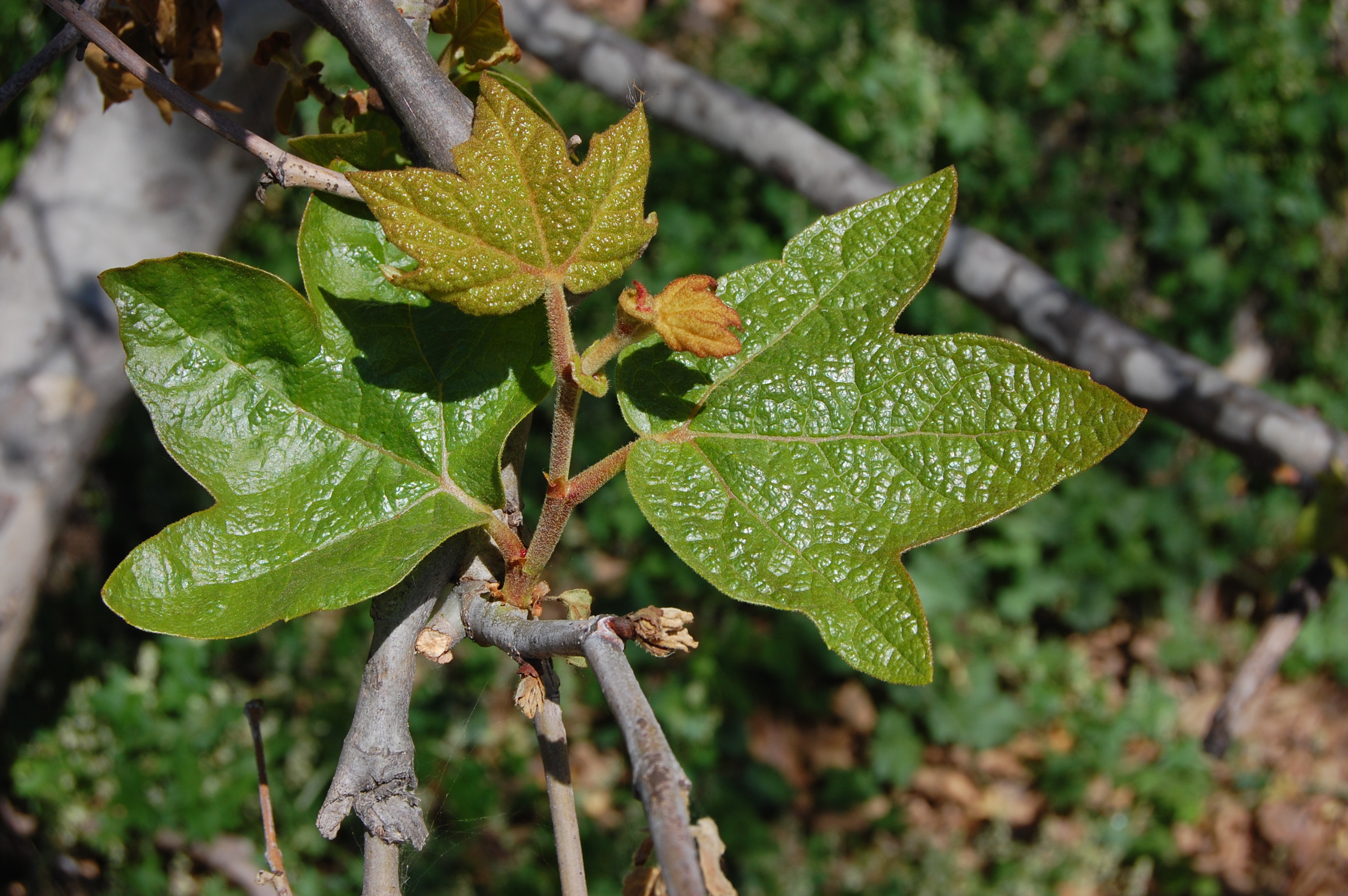 California Sycamore, Western Sycamore, Aliso